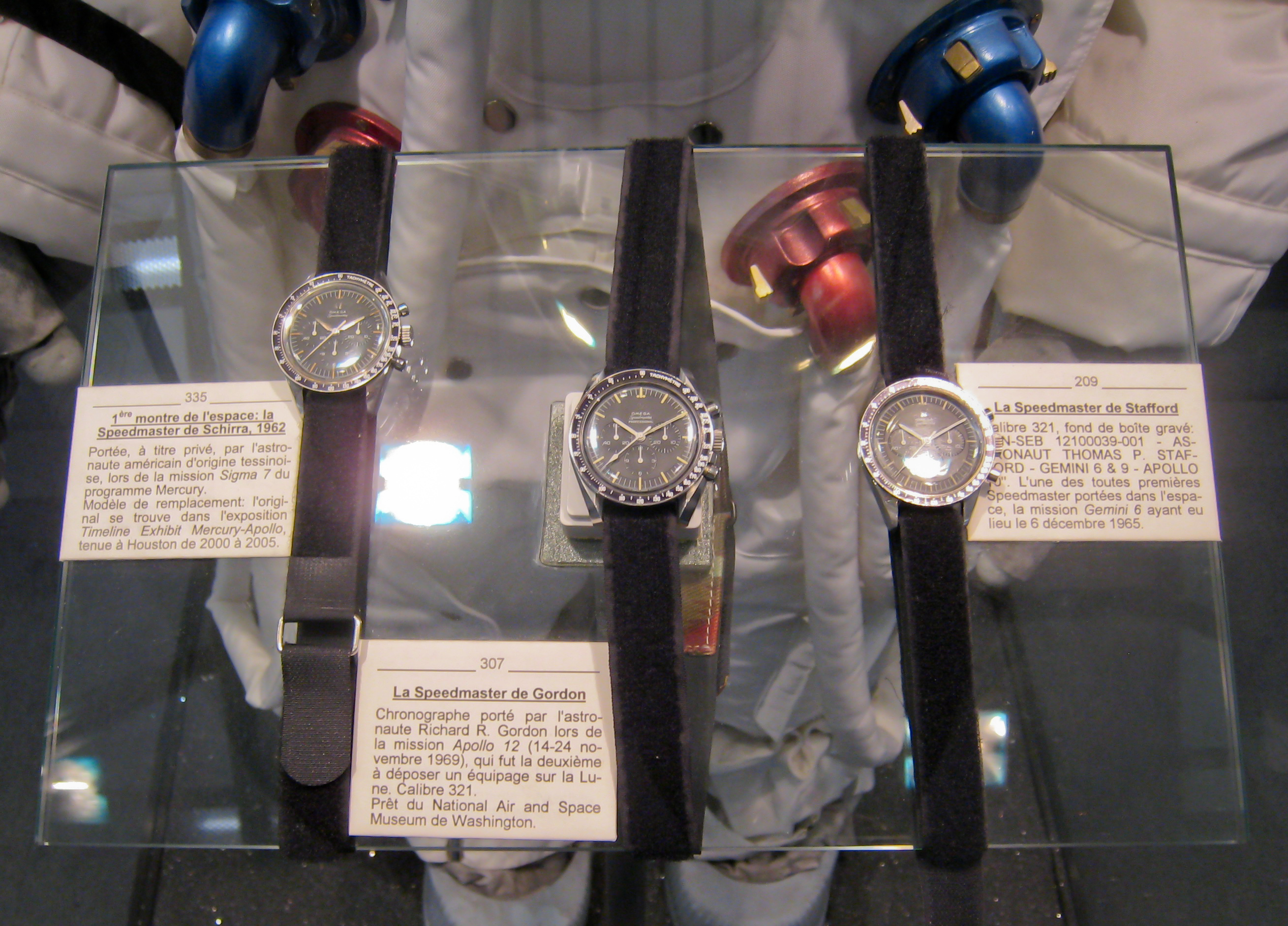 The Omega Speedmaster watches worn by Walter Schirra (Mercury Sigma 7 mission, 1962), Richard R. Gordon (Apollo 12, 1969) and Thomas P. Stafford (Gemini 6, 1965). Schirra's watch is a replica; the other two are the originals worn in space. Omega Uhrenmuseum Biel/Bienne, Switzerland.